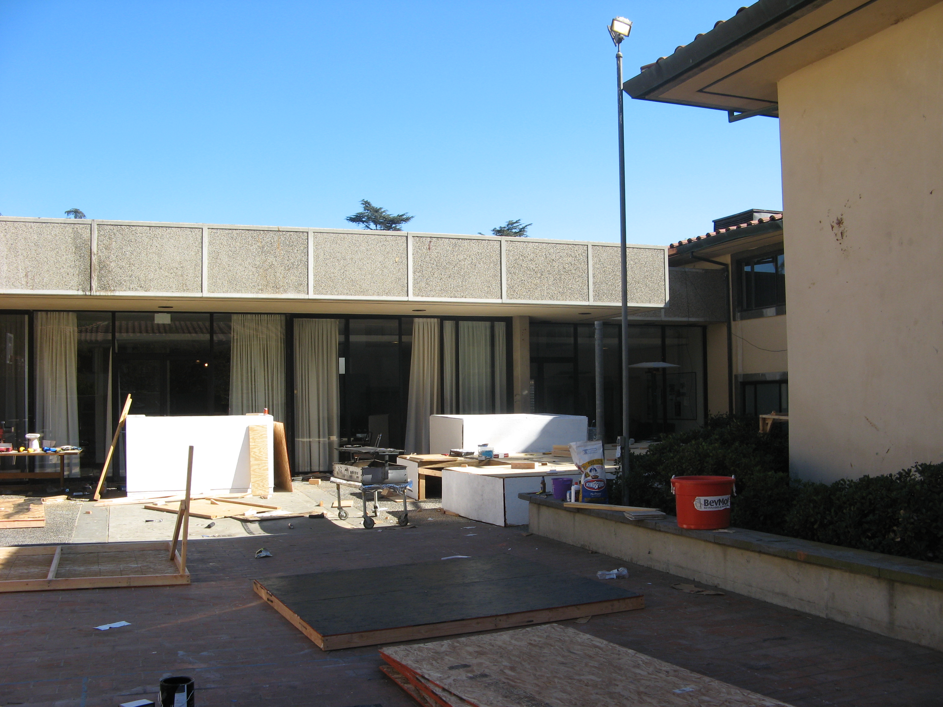 Page House courtyard at the California Institute of Technology in November 2008. Construction for Page Interhouse is visible.